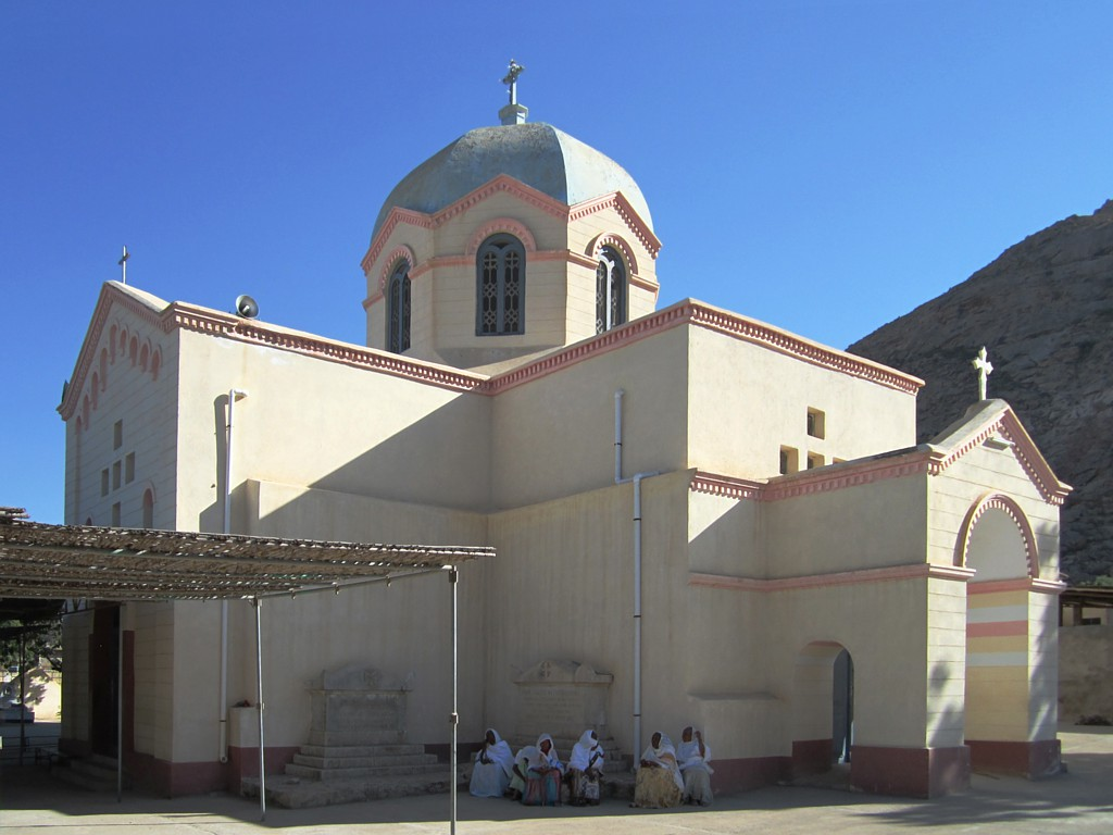 The Church of St Michael (1925) is in a southern suburb of Keren, Eritrea.